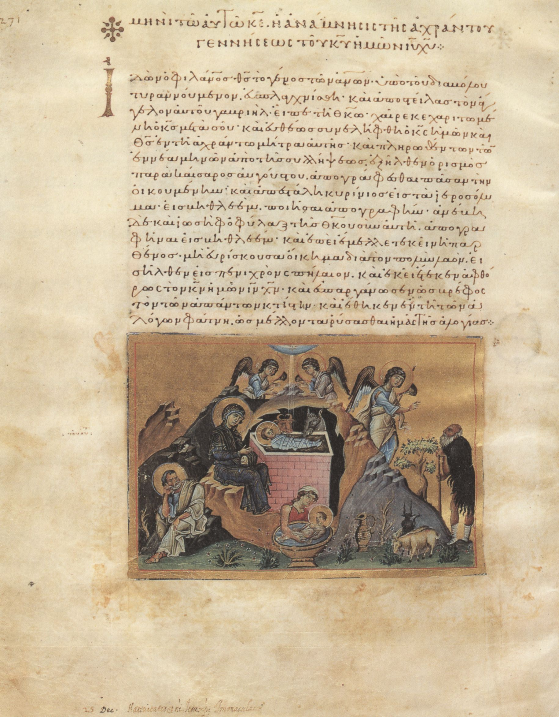 Menologion of Basil II. Christmas